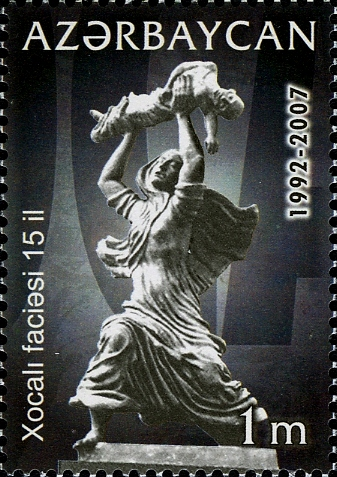 15th Anniversary of Khojali Tragedy